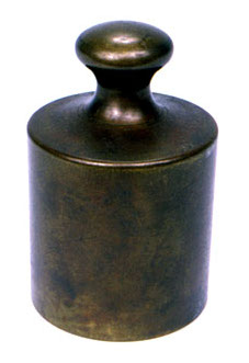 One of six temporary prototypes made in 1793 by the French Temporary Commission on Weights and Measures of the proposed mass standard for the new French system of weights and measures, the Metric System. Originally called the "Grave", the name was changed to "kilogram" in 1795. Therefore this is one of the first kilogram standards. The prototype is in the collection of the NIST Museum, US National Institute of Standards and Technology, Bethesda, Maryland, USA